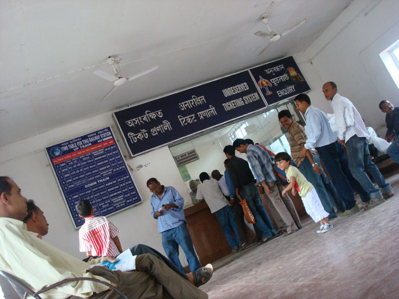 Tihu railway station reservation